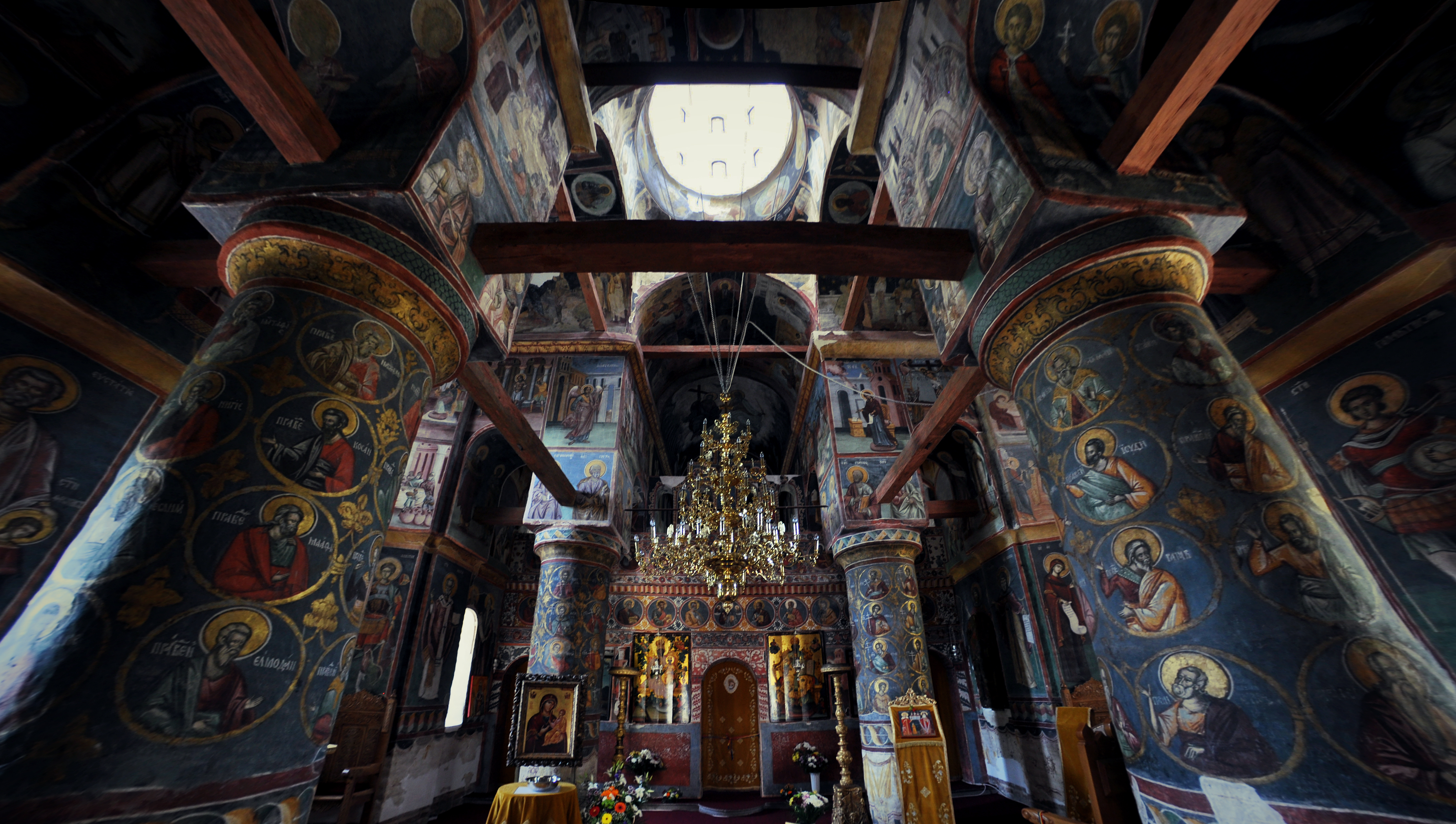 Snagov Monastery Biserica "Intrarea Maicii Domnului în Biserică" "The Presentation" Church [Entrance of the Theotokos into the Temple] construction from 1517, iconography from1563, other interventions 1815, 1904, 1941, 1953, 1966...